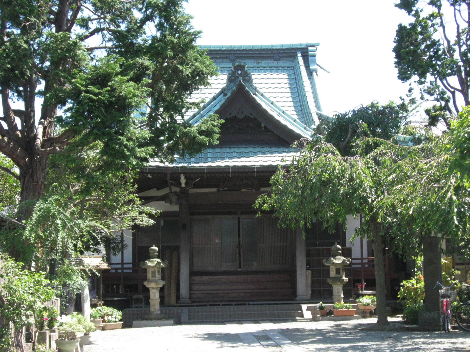 Shōgon-ji's Main Hall in Fujisawa City, Kanagawa Prefecture, Japan